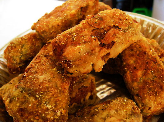 Marinated tempeh fried in flour and salt with flax seed and soy milk batter.